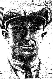 Blake E. Shambeau, who testified in a trial of Ku Klux Klan members accused of staging a raid on an Inglewood, California, house on April 22, 1922. This photo was published in the Los Angeles Times in April 1922.